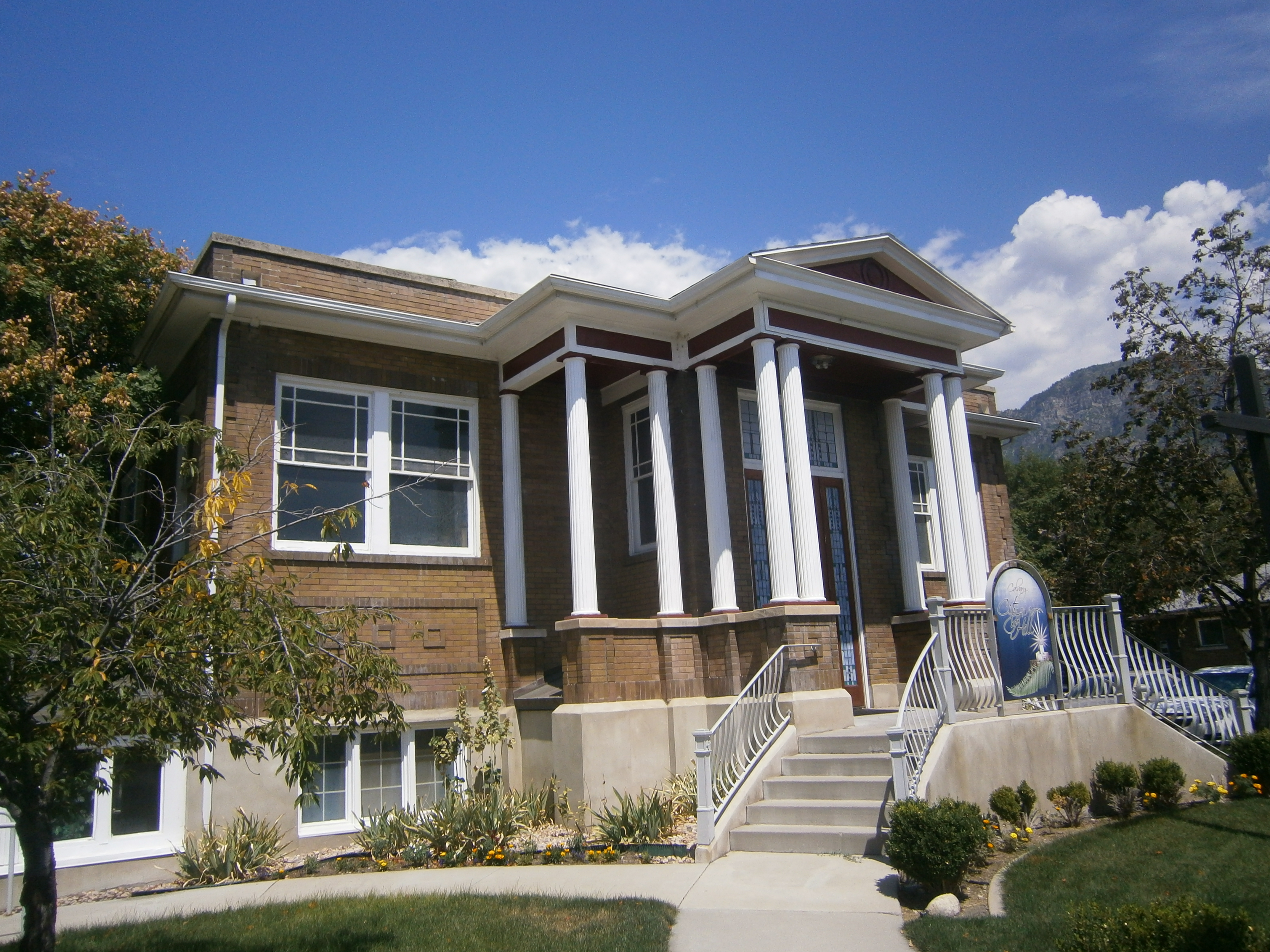 Calvary City on a Hill Church, at 105 East 100 North in Provo, Utah, United States. Built in 1926 as the First Church of Christ Scientist, it is a contributing property in the Provo East Central Historic District.